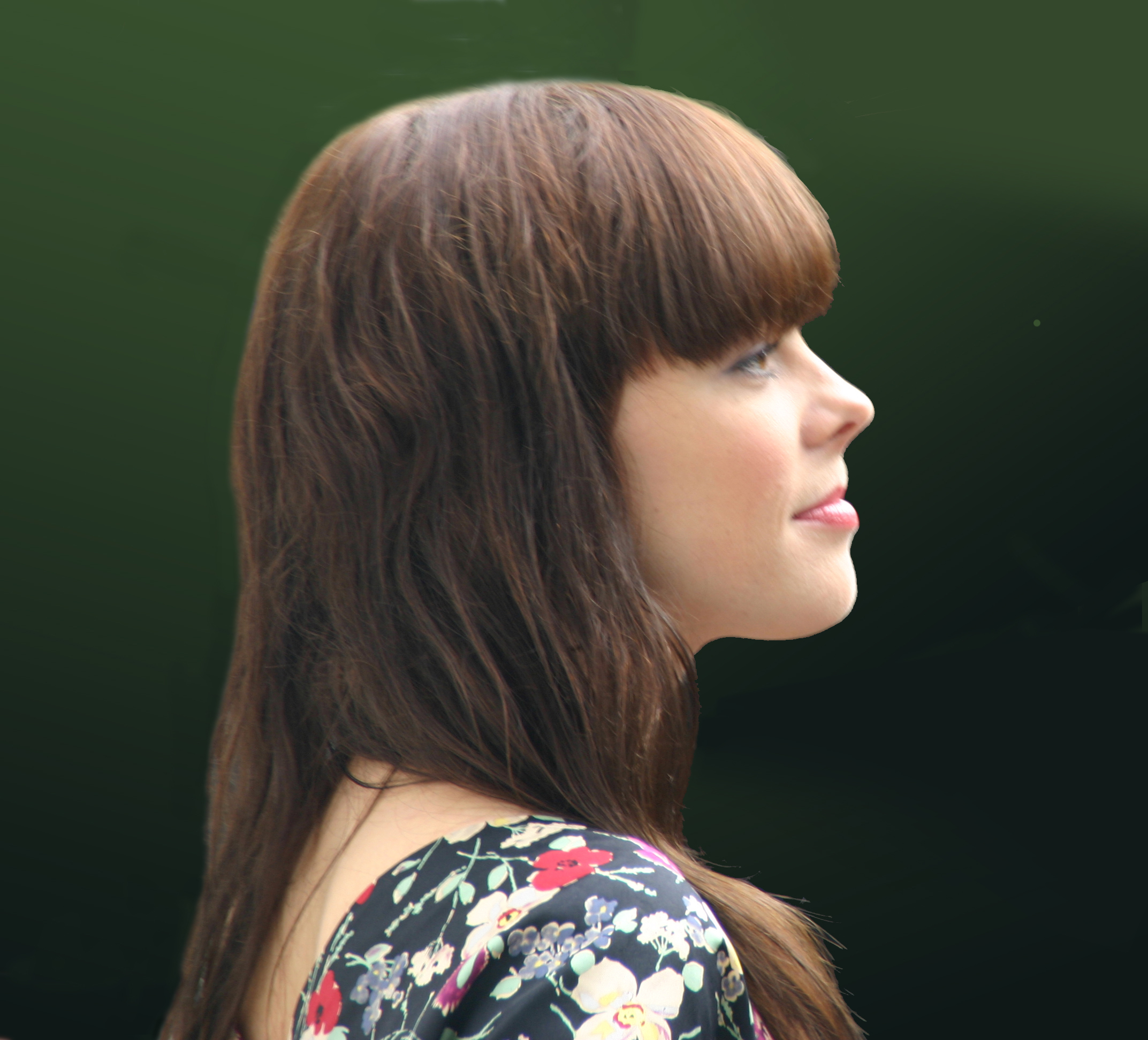 Lenka Kripac writes autographs at SWR3-NewPop-Festival in Baden-Baden